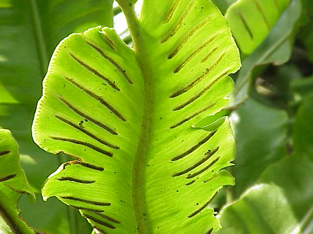 Species: Phyllitis scolopendrium Family: ' Image No. 1